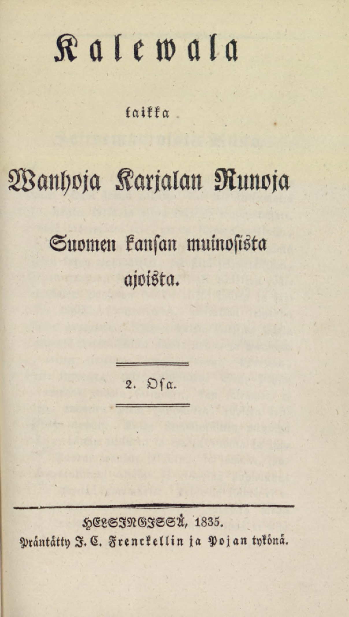 Inside front title page of The "Old" Kalevala, Finnish national epos, collection of old Finnish poems, by Elias Lönnrot. First edition; volume 2, 1835. Page text reads: Kalewala or the old Karelian poems about the ancient times of the Finnish people 2nd Part In Helsinki 1835 Printed JC Frenckellin Son's company